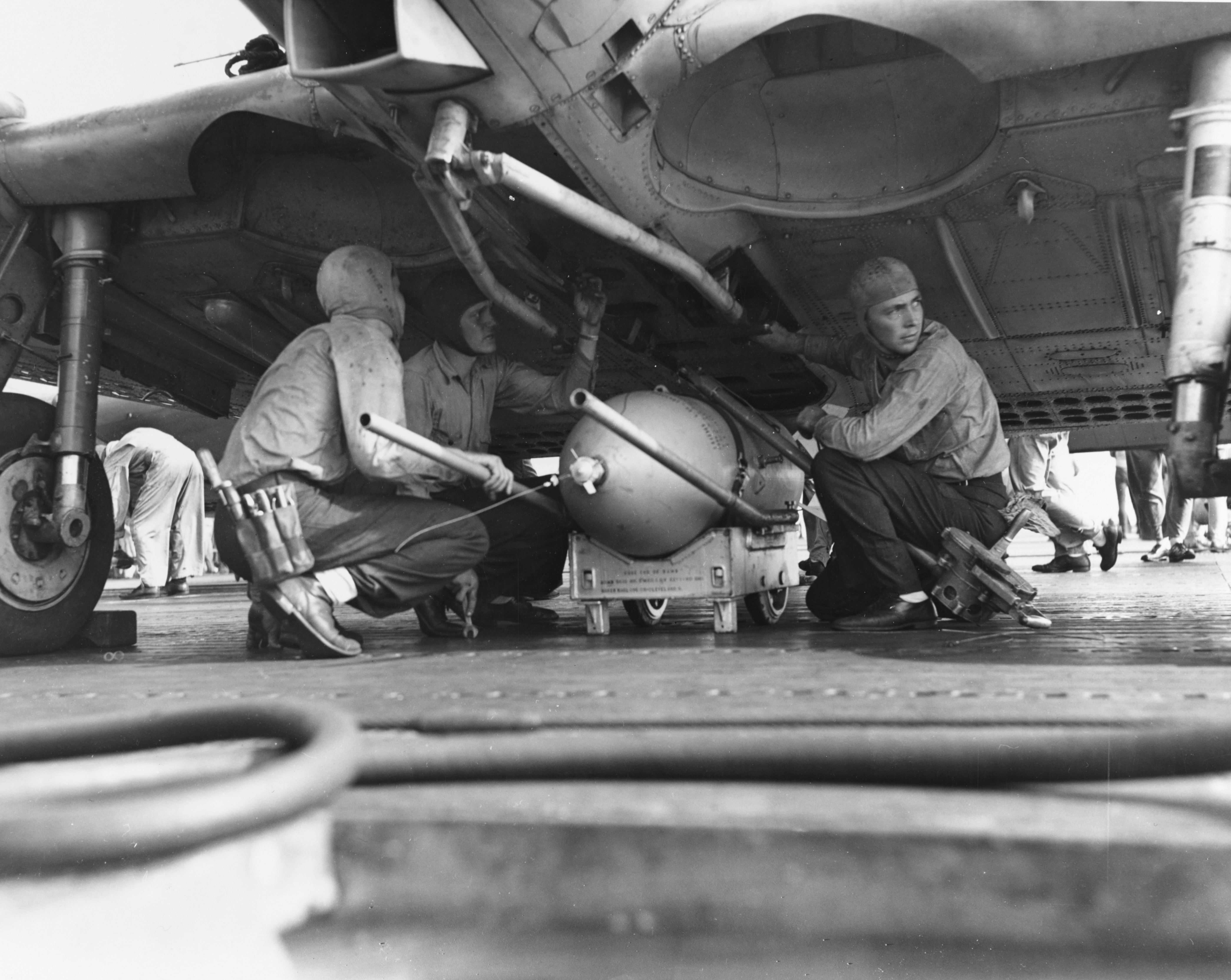 Guadalcanal Invasion, August 1942: U.S. Navy ordnancemen of Scouting Squadron 6 (VS-6) load a 500 pound (227 kg) demolition bomb on a Douglas SBD-3 Dauntless on the flight deck of the aircraft carrier USS Enterprise (CV-6), during the first day of strikes on Guadalcanal and Tulagi, 7 August 1942. Note the aircraft's landing gear and the bomb crutch, the bomb cart and the hoist.